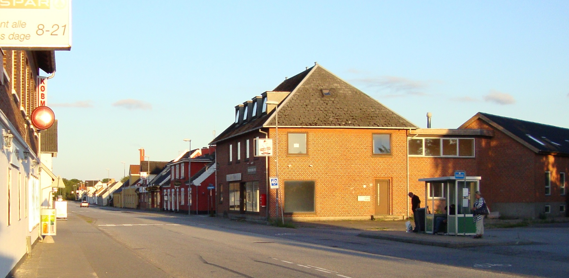 Tylstrup Town in Nordjylland, Denmark